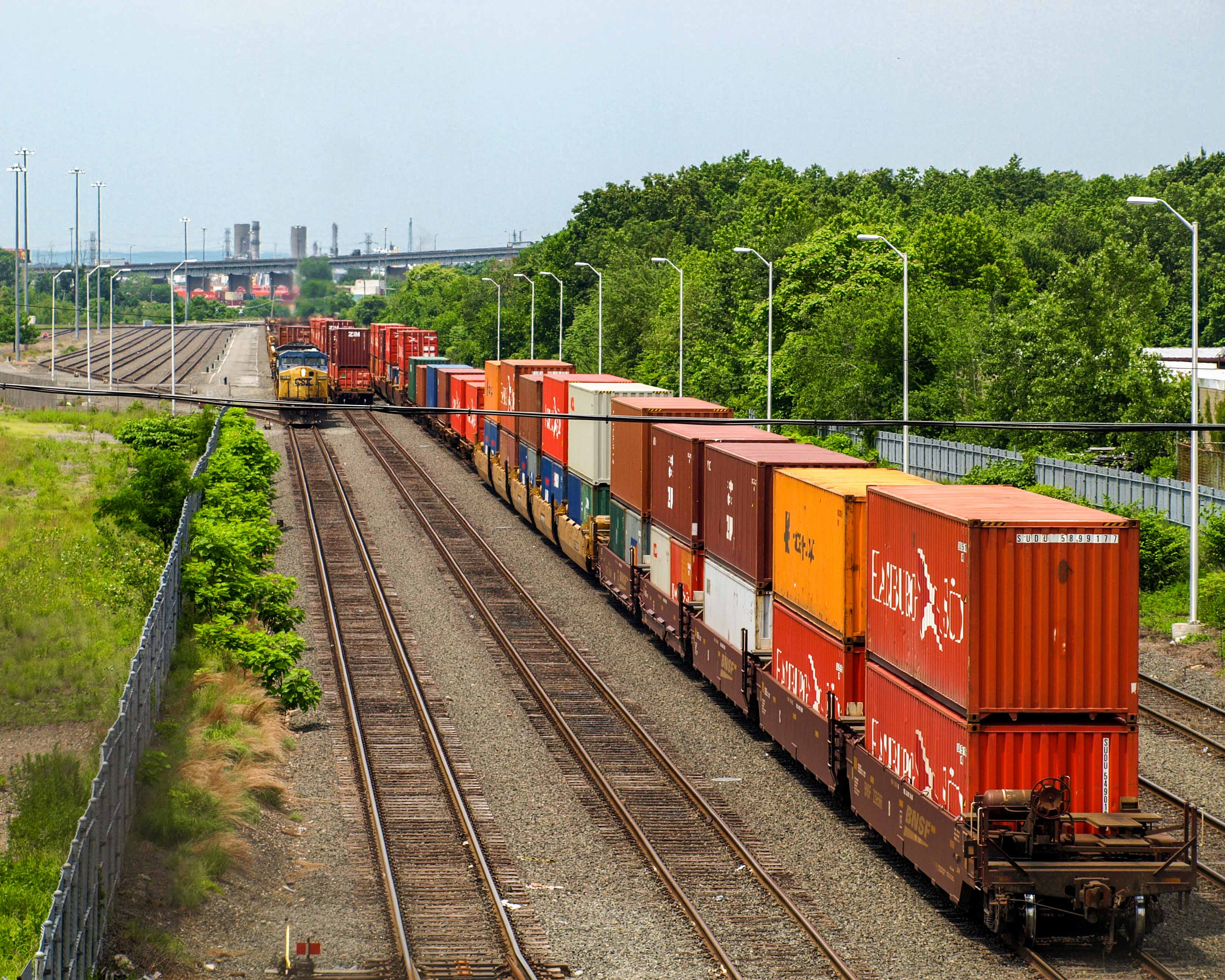 Freight Railroad Train at Arlington Yard